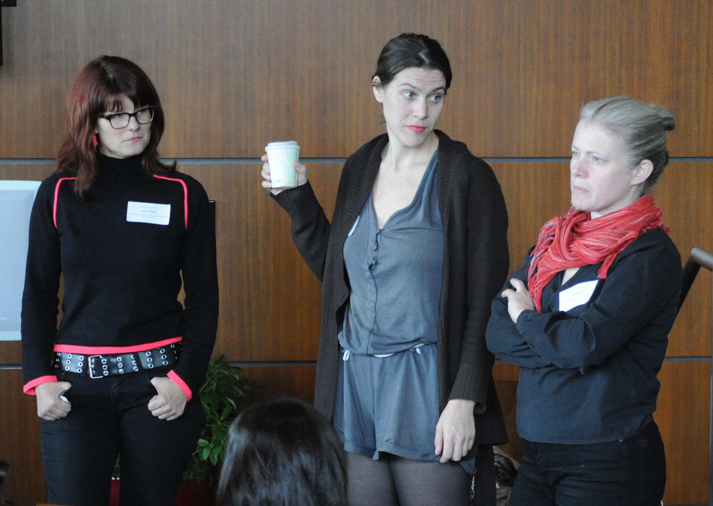 (Left to right) Allison Wolfe, Anna Oxygen and Jen Smith at Work It! a conference at USC on gender, race, and sexuality in pop music professions presented in association with the 2011 Pop Conference at UCLA.